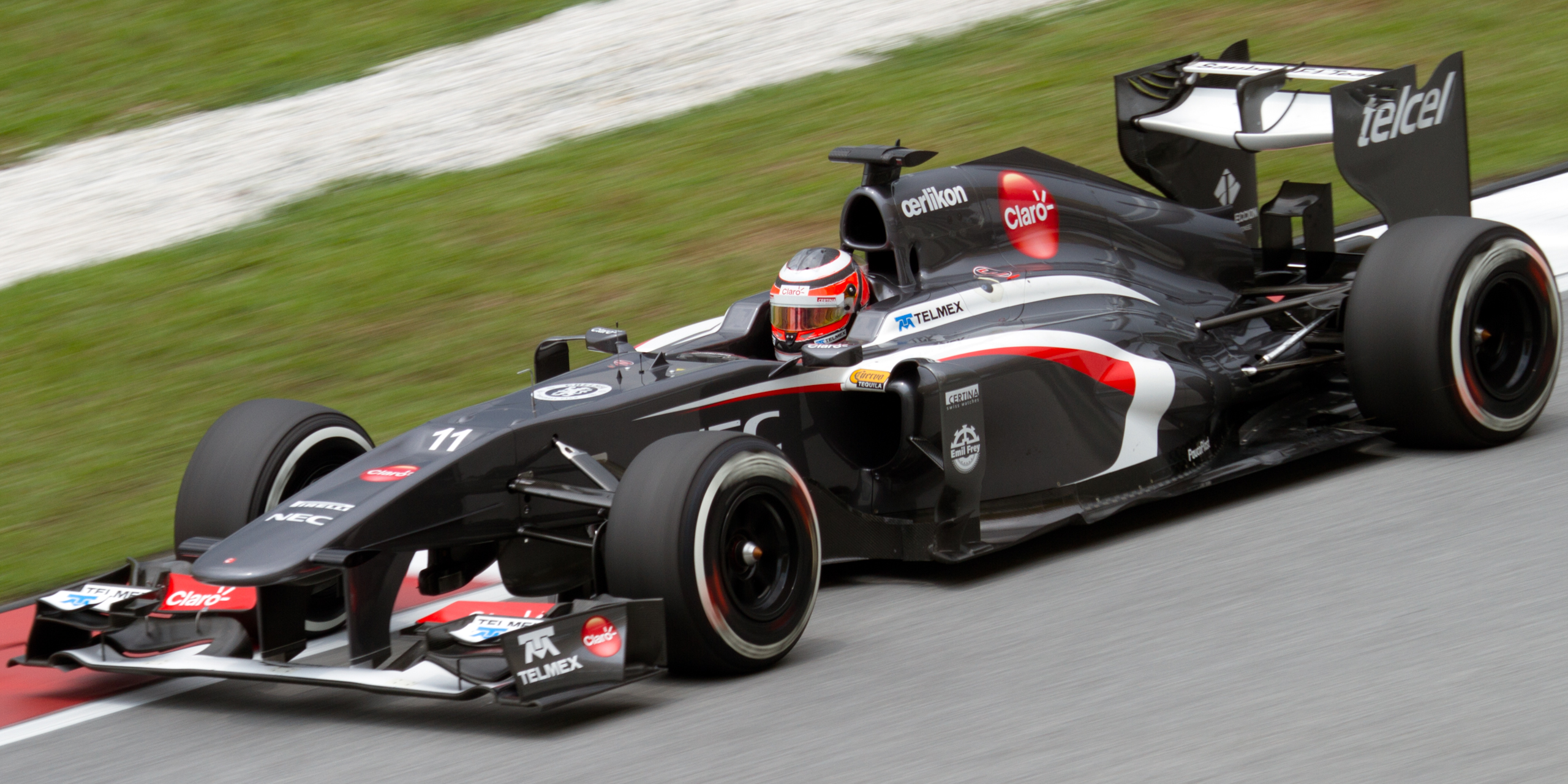 Formula One 2013 Rd.2 Malaysian GP: Nico Hülkenberg (Sauber) during the second practice session on Friday.